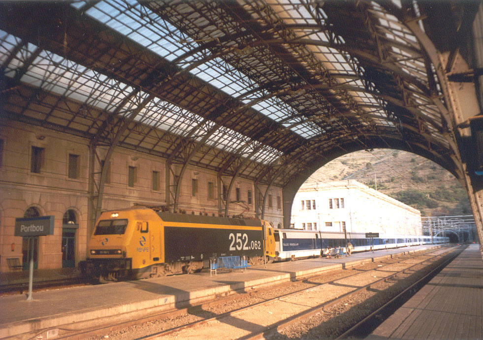 Talgo Pendular in Portbou (Spain). Locomotive 252-062-5.